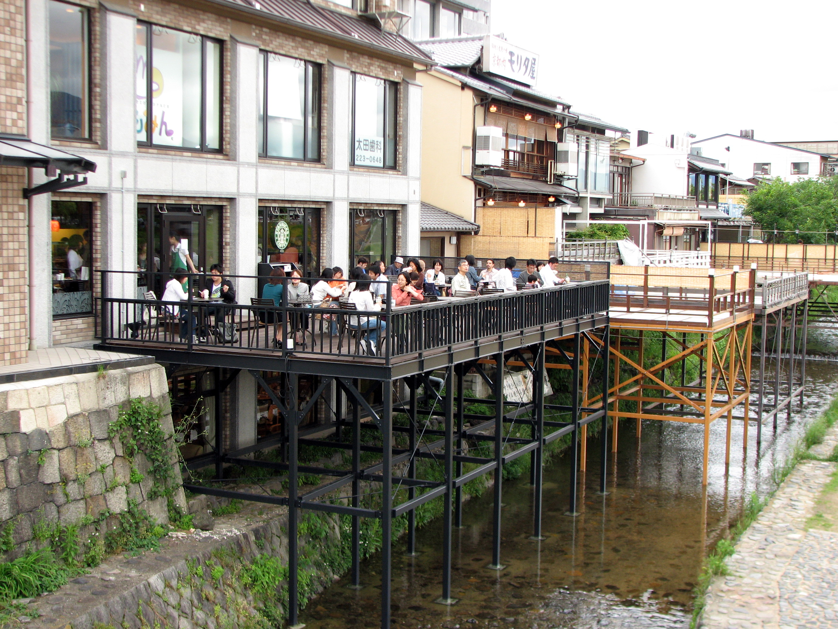 The Starbucks Balcony on the KamogawaStarbucks balcony